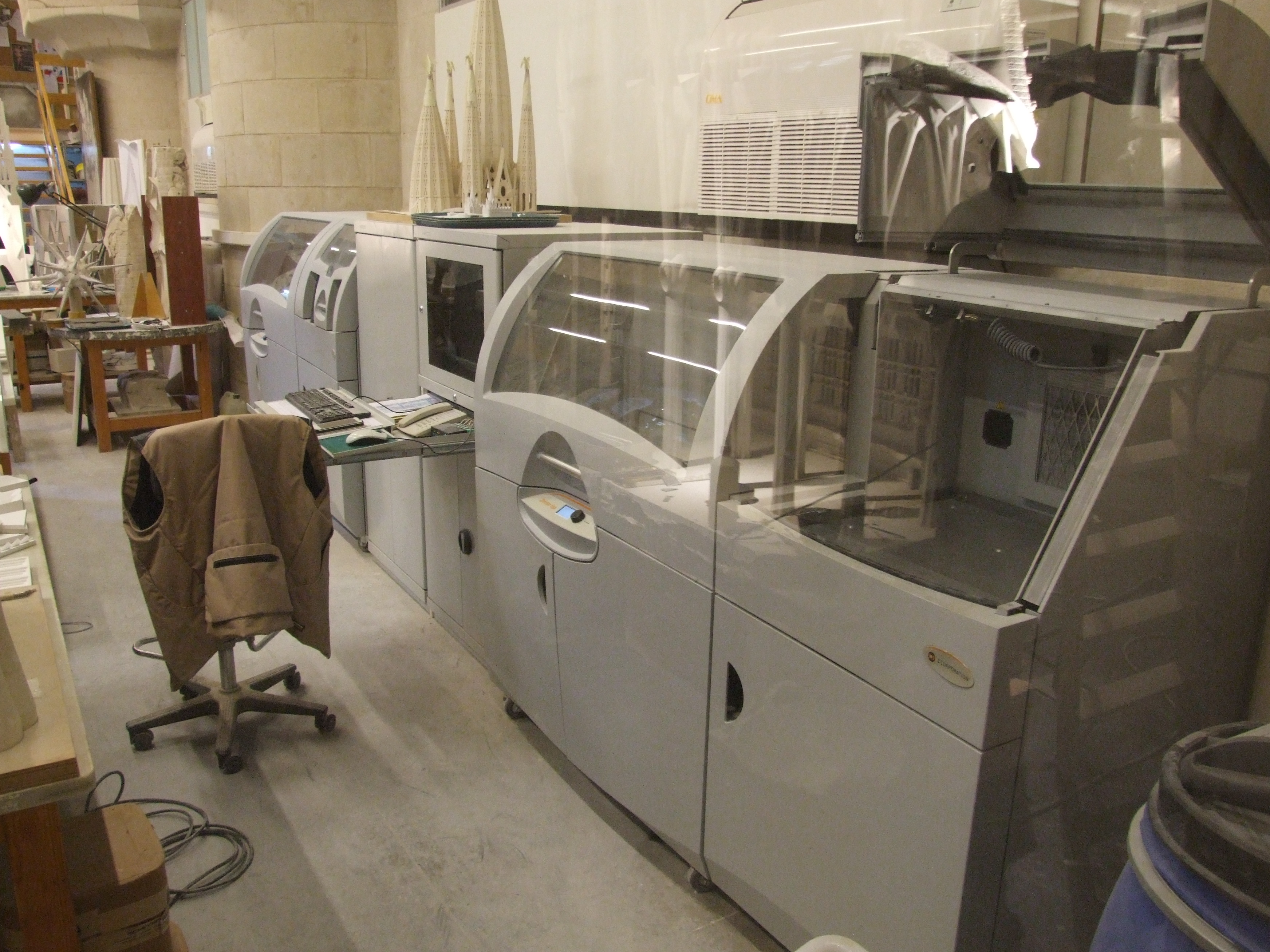 3D printer at the fabric of the Sagrada Familia, which are used for the fabrication of models of complex architectural forms of Antonio Gaudi. Manufacturer of the equipment is the Z coperation.